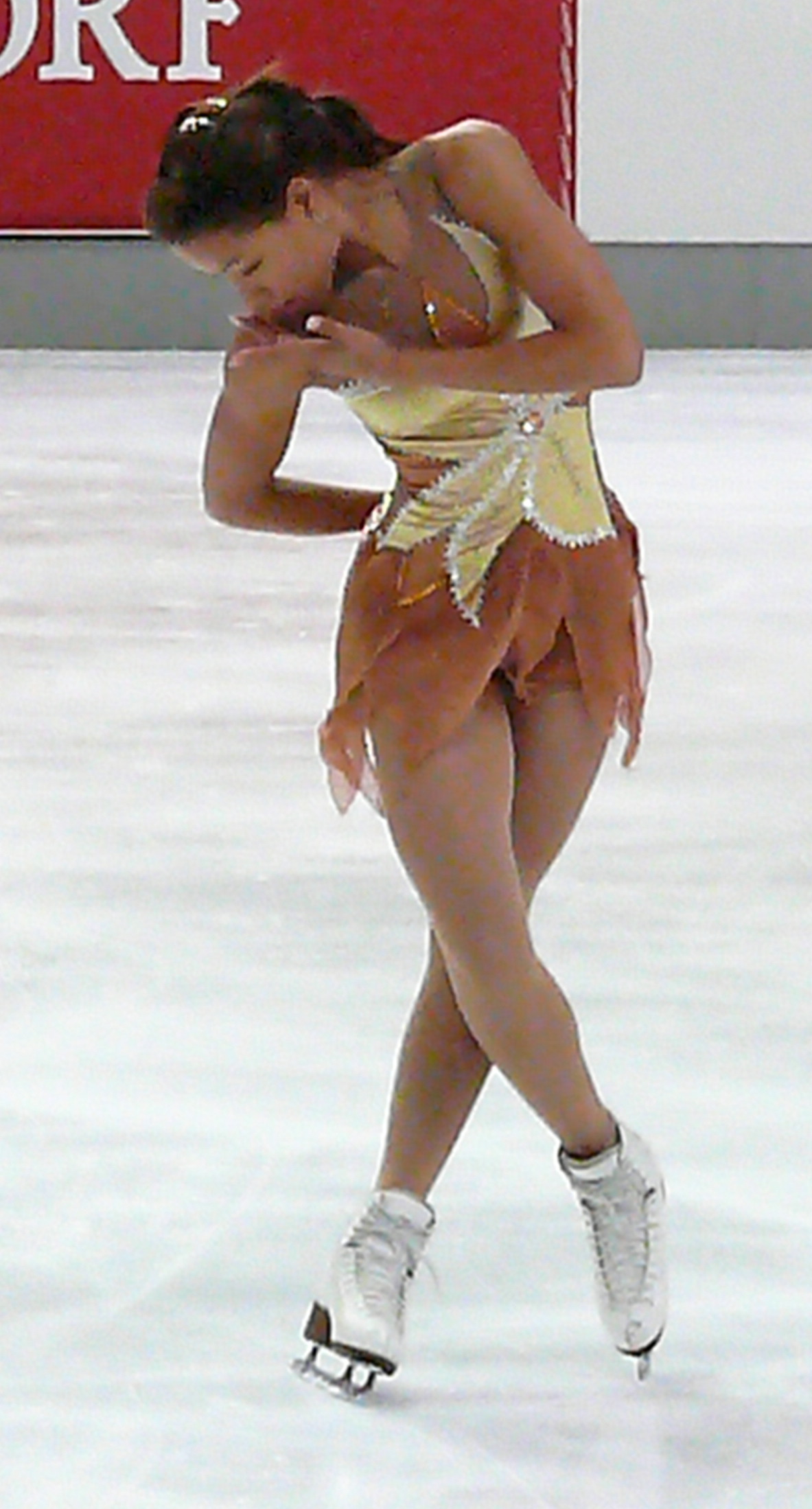 Megan Williams-Stewart at the free program of the Nebelhorn Trophy 2007 in Oberstdorf/Germany